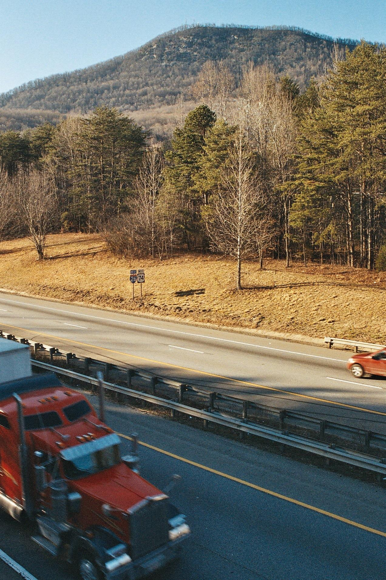 I-26 from Skyuka Road near Columbus in Polk County, North Carolina.